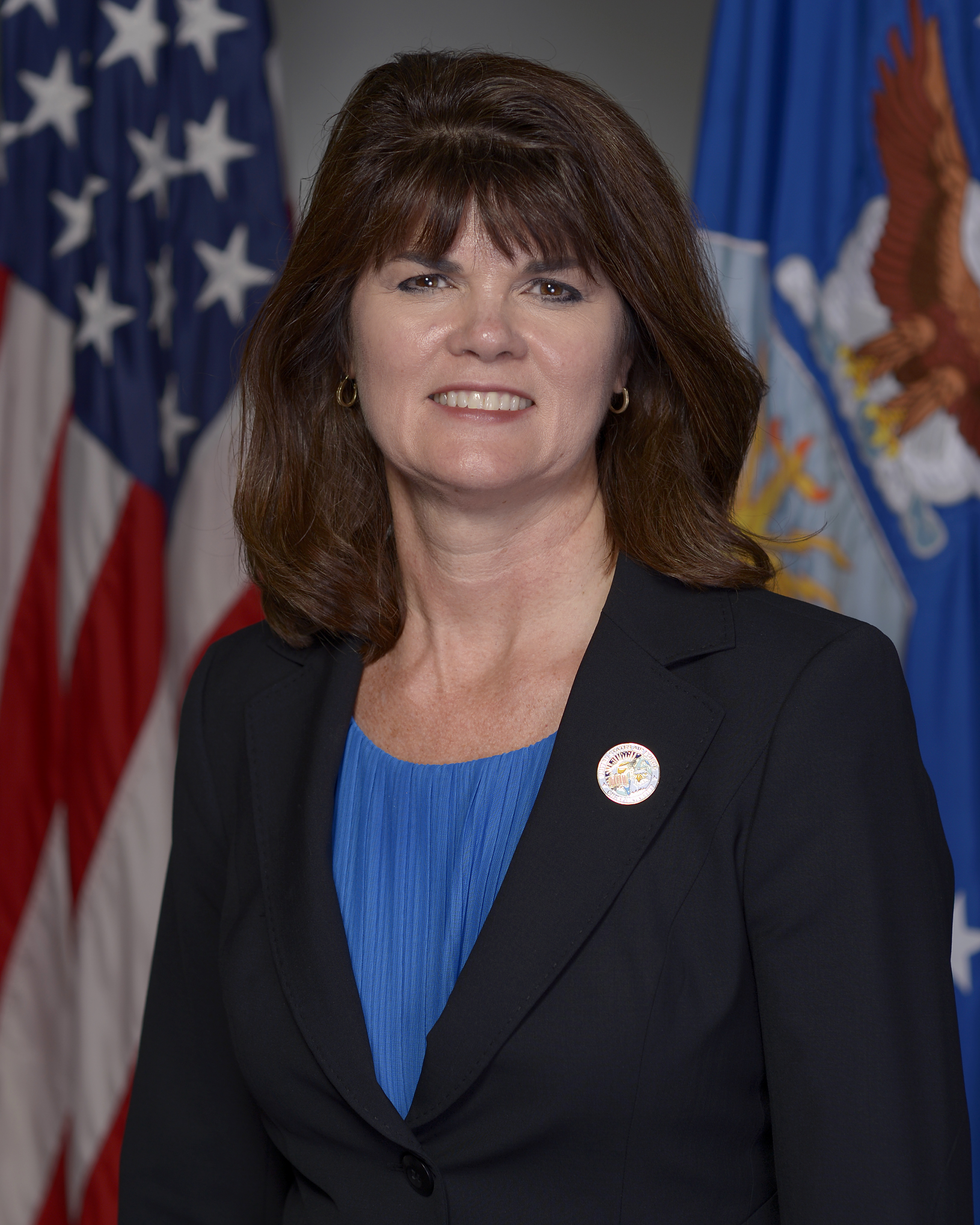 Mica Endsley - Chief Scientist of the Air Force Photo